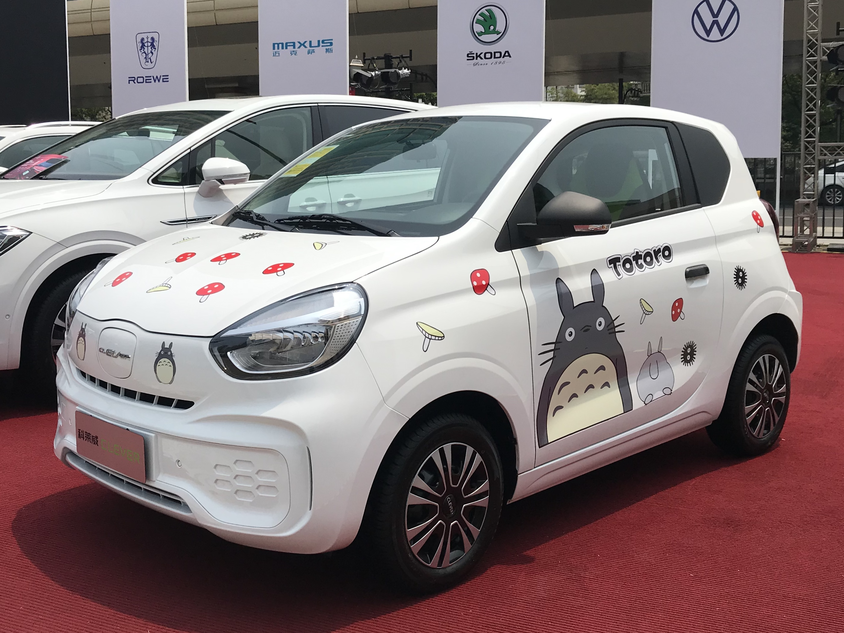 Roewe Clever EV